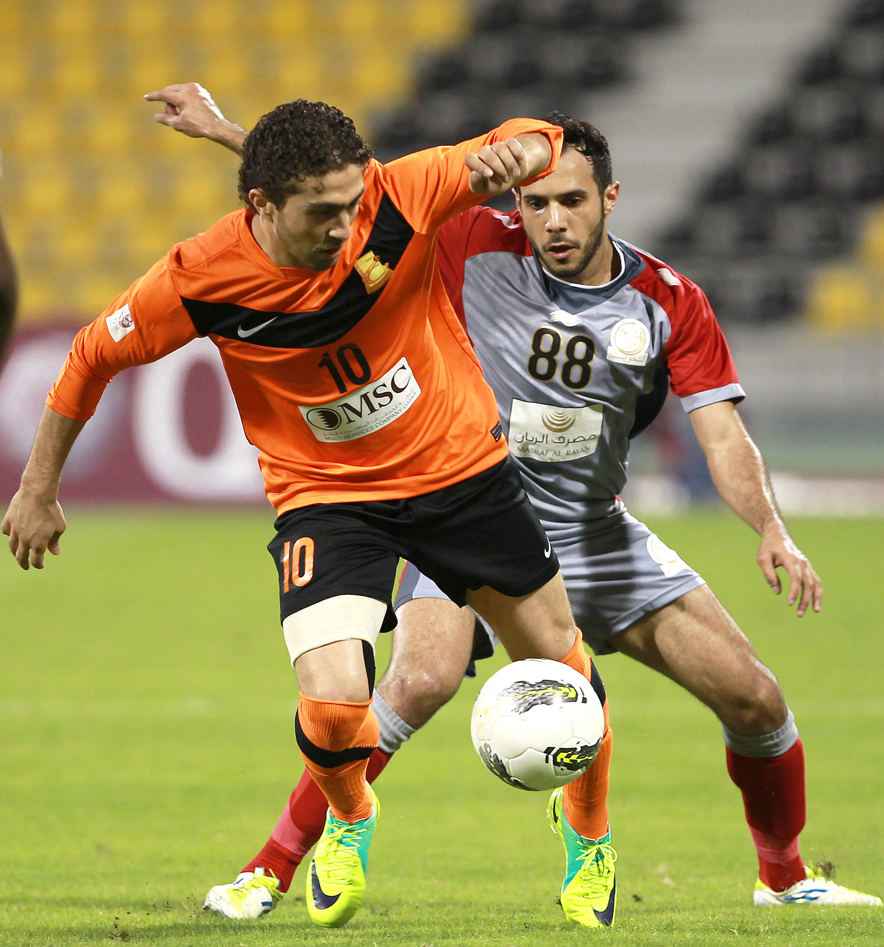 Umm Salal's Firas Al-Khatib, left, and Lekhwiya's Hussain Ali Shehab vies for the ball during their Qatar Stars League match. Pic by AK Bijuraj